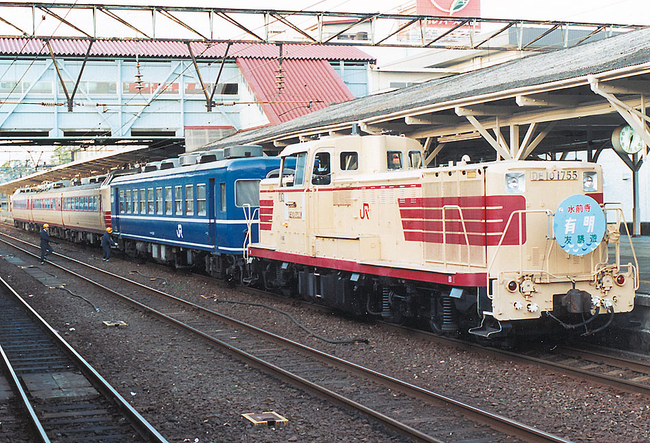 JR Kyushu DE10 1755 diesel locomotive for the limited express Ariake bound for Suizenji, at Kumamoto Station